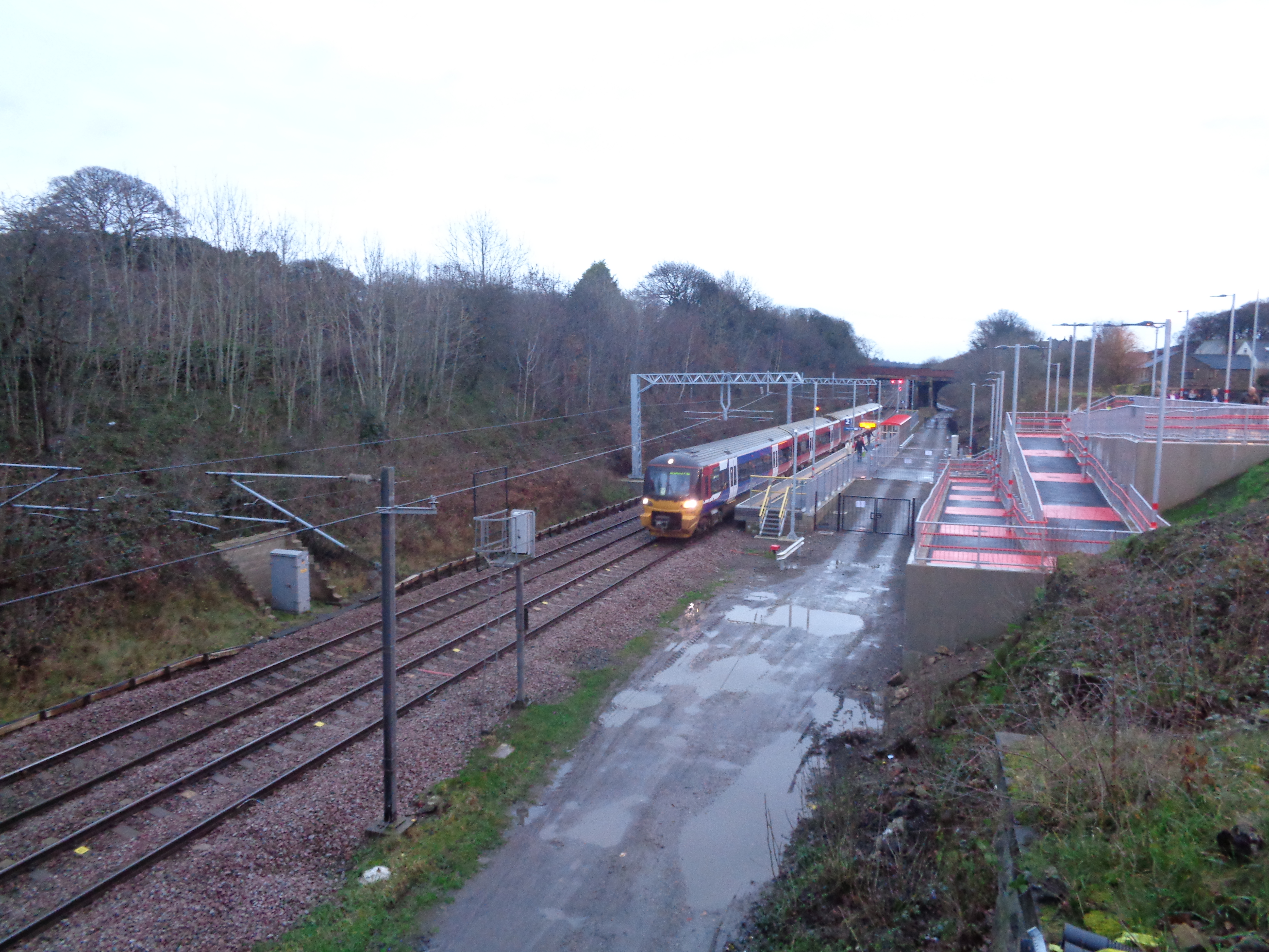 Bradford bound platform seen from the footbridge, Apperley Bridge railway station in Apperley Bridge, Bradford, West Yorkshire. The railway station opened on Sunday the 13th of December 2015. Taken on the afternoon of Tuesday the 22nd of December 2015 (nine days after opening).